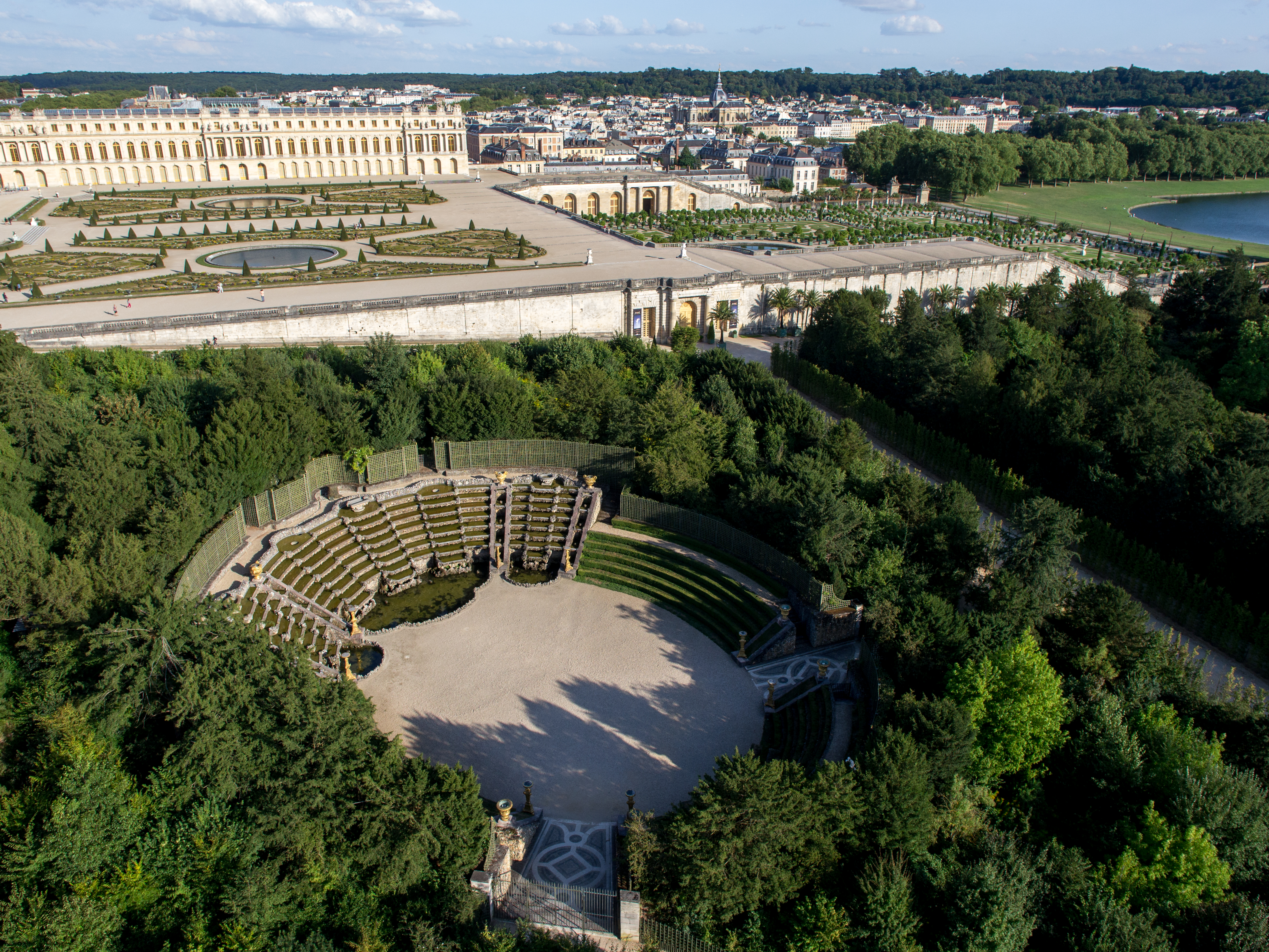 Aerial view of the Bosquet des Rocailles in the Gardens of the Palace of Versailles, France. In the background, the Parterre du Midi and the Orangerie